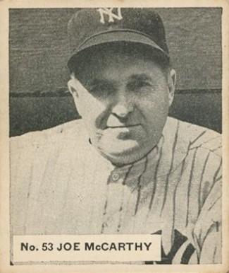 1936 Goudey World Wide Gum card of Joe McCarthy. PD-not-renewed.